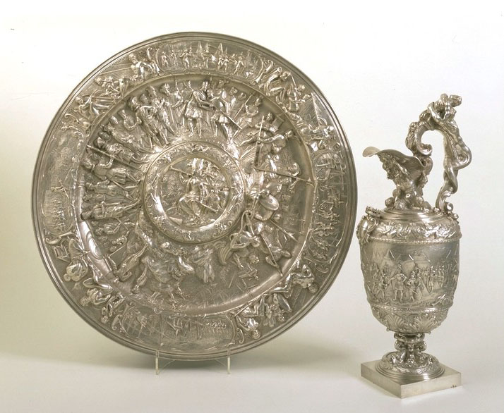 Lomellini Ewer and Basin, 1621-1622 V&A Museum no. M.11&A-1974 Artist/designer - Lavazzo Tavarone 1556-1641 (possible designer), Giovanni Aelbosca Belga active around 1620 (goldsmith) Techniques - Silver, cast, chased and embossed Place - Genoa, Italy Dimensions - Ewer: Height 53.5 cm Width 17.5 cm, Basin: Diameter 64 cm